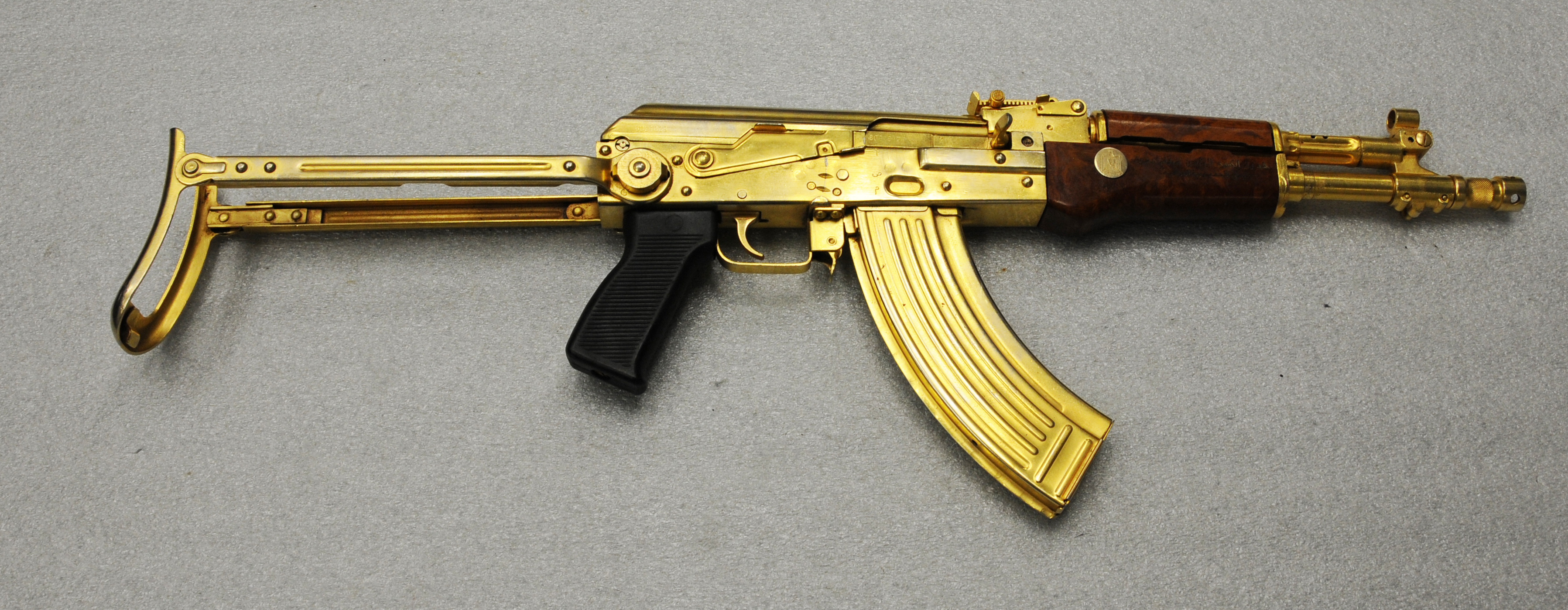 Accession: 2010-119-1 Rifle, Tabuk, Iraq 7.62 X 9mm 31"L x 7"H Assault rifle built by Tabuk in Iraq to the specifications of Mikhail Kalashnikov's AK-47. The rifle is gold plated and was seized during Operation Iraqi Freedom. Naval History and Heritage Command has a large collection of historic firearms which includes AK-47's from around the world. Collection of Curator Branch: Naval History and Heritage Command.